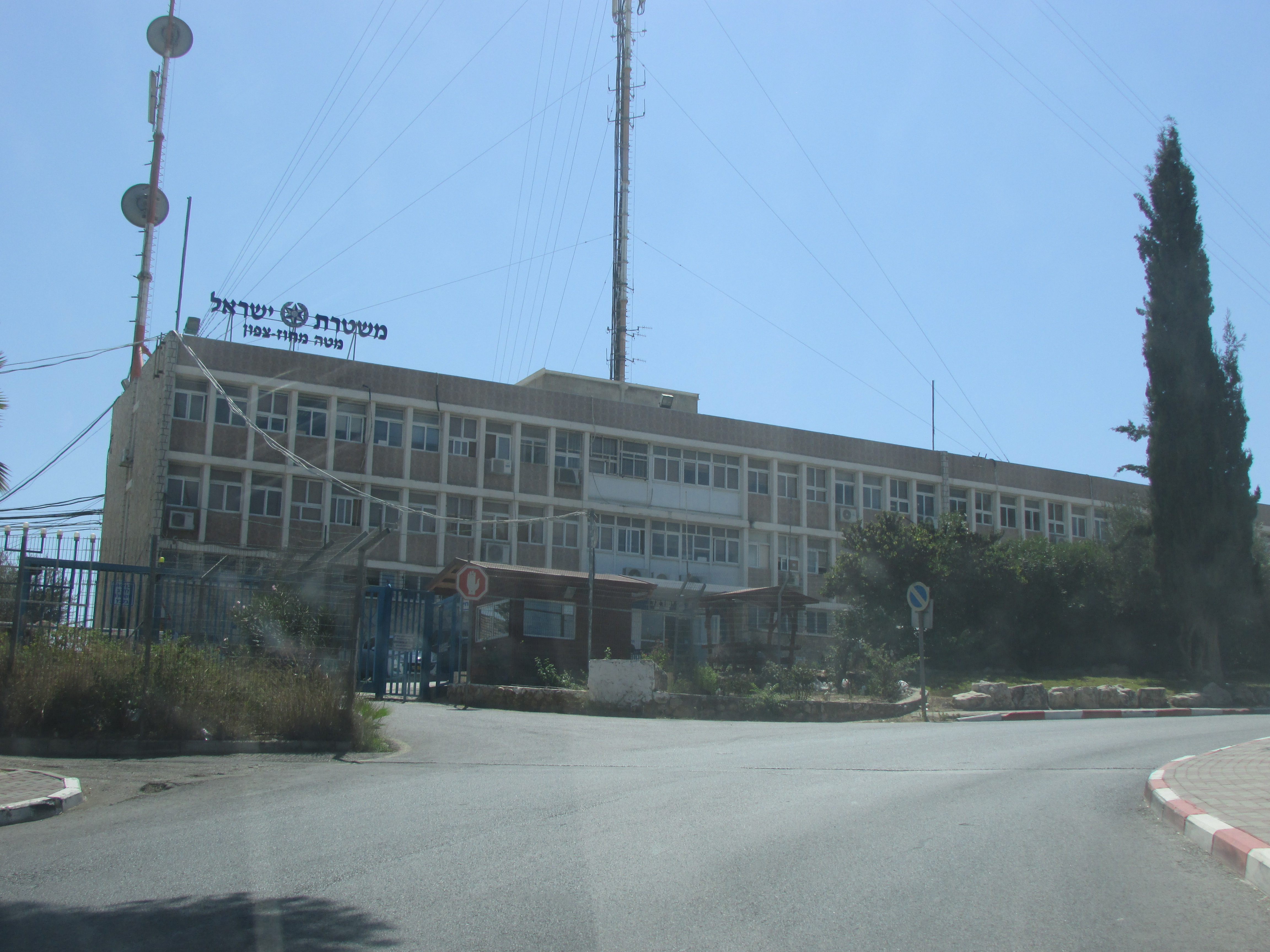 Northern police district headquarters in Nazereth